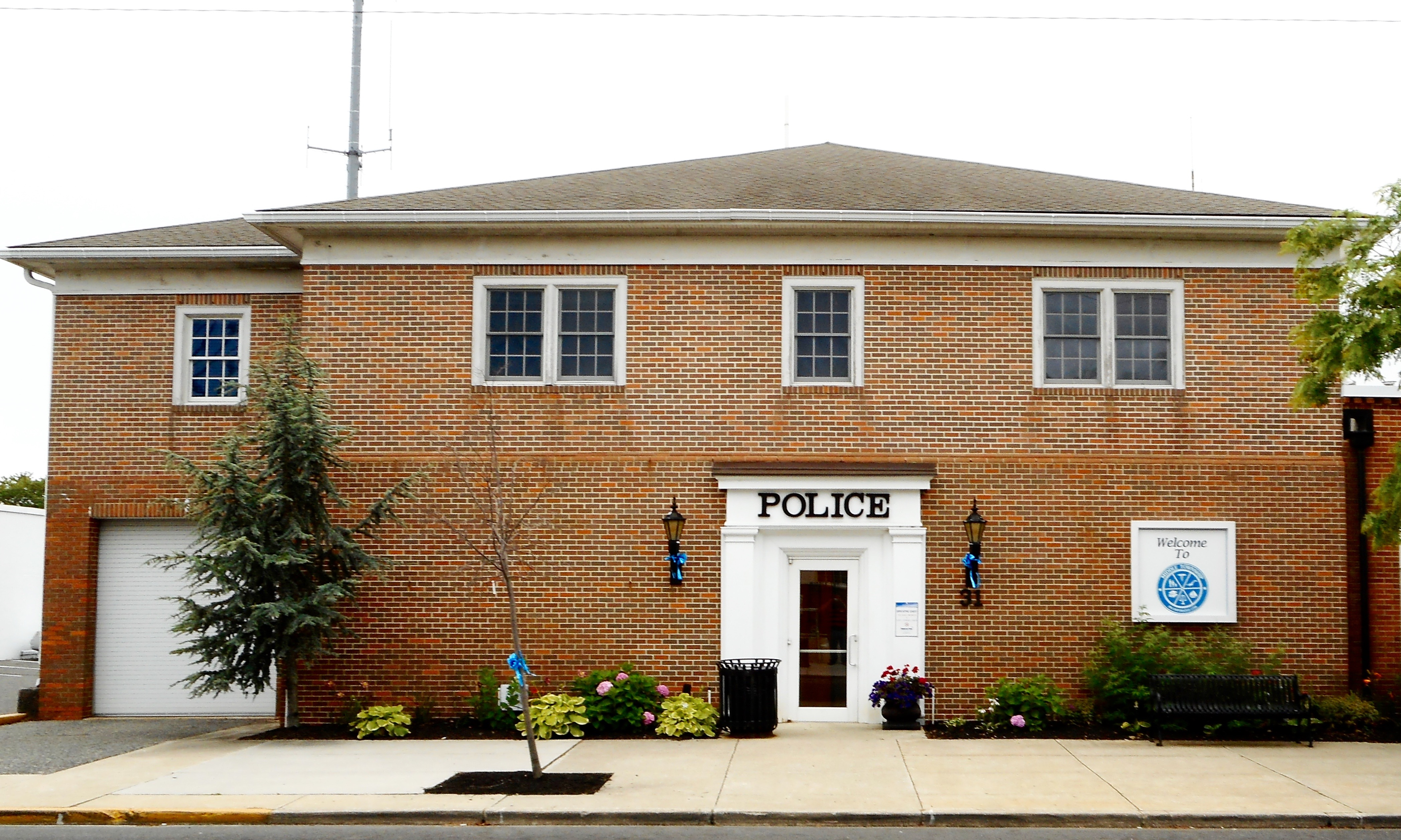 Middle Township Police Department located in Cape May Court House, New Jersey